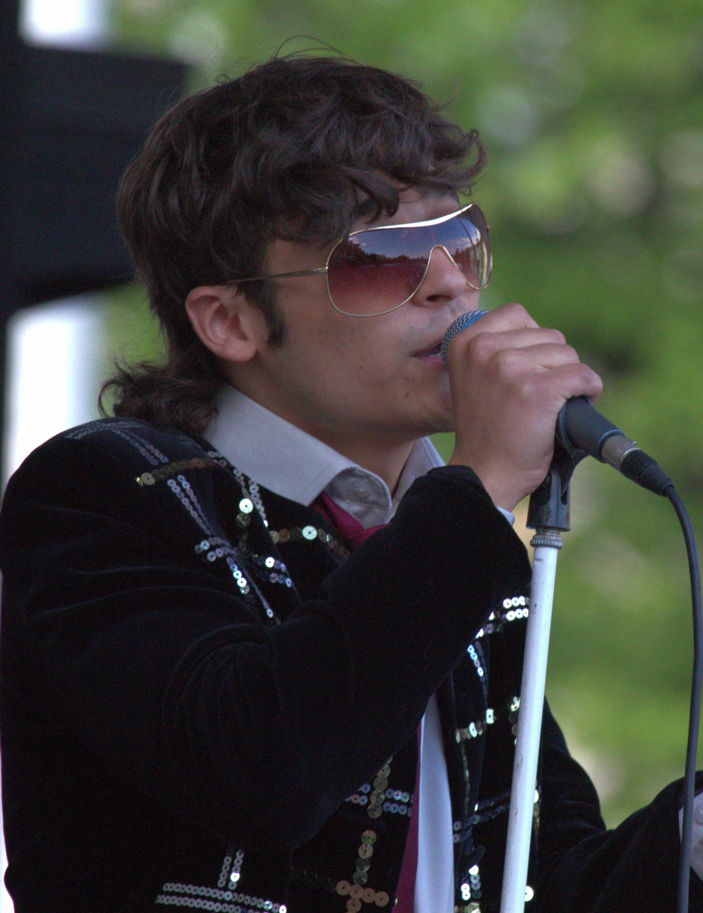 Amadeus Lundberg finnish singer